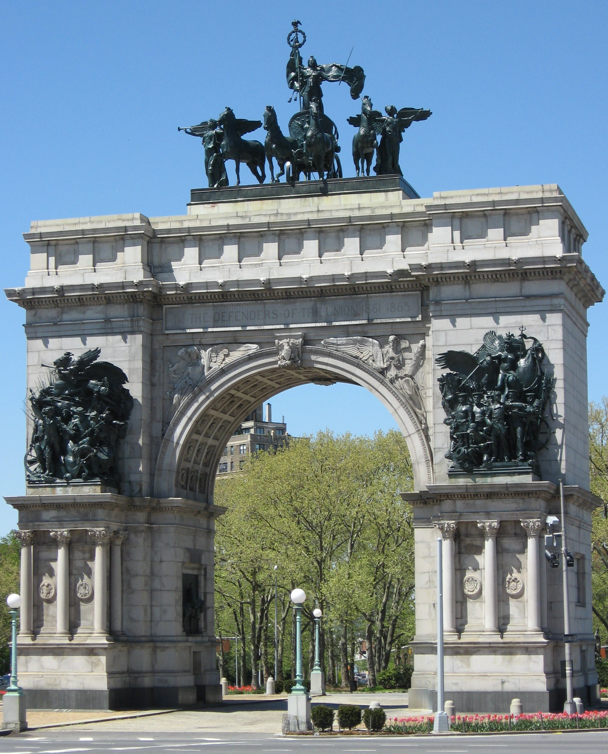 The Soldiers' and Sailors' Arch in Grand Army Plaza, Brooklyn.